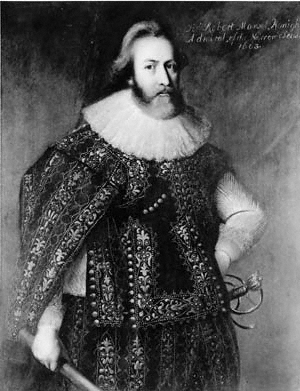 Sir Robert Mansell (1570/71–1652), by unknown artist